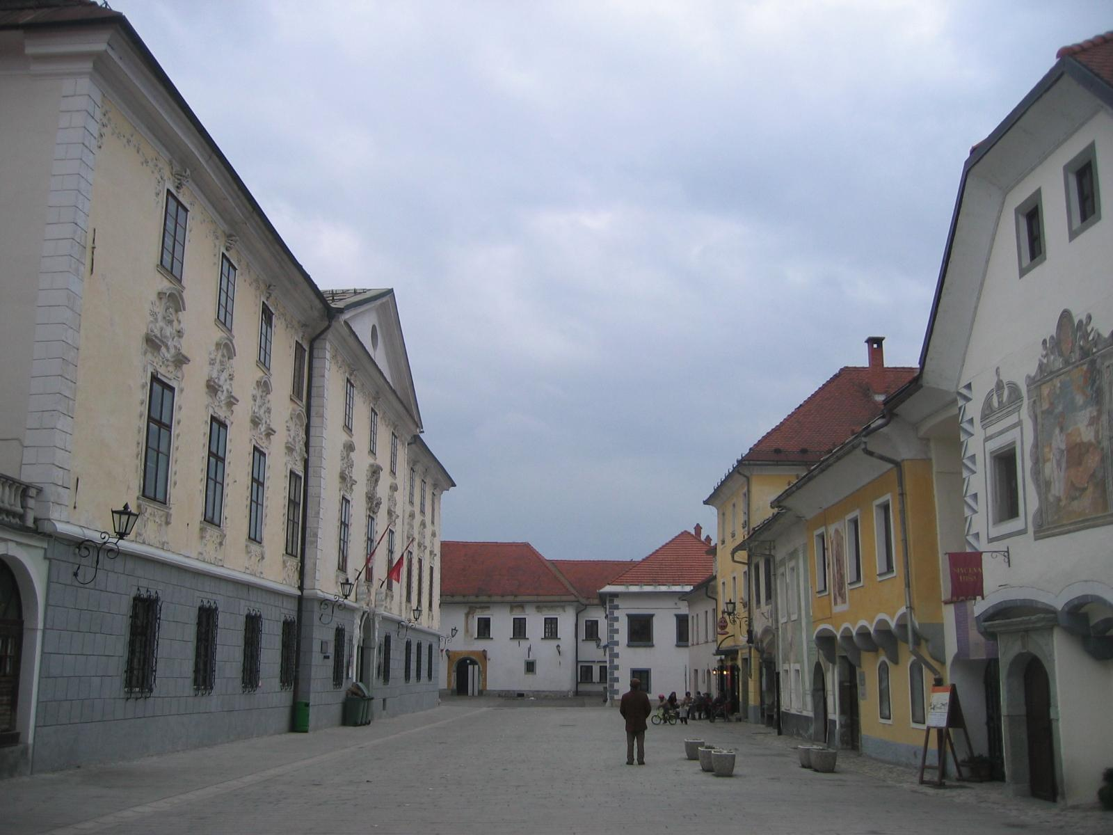 Radvljica, old square, (town in Slovenia) photo:Ziga 15:09, 26 February 2007 (UTC)